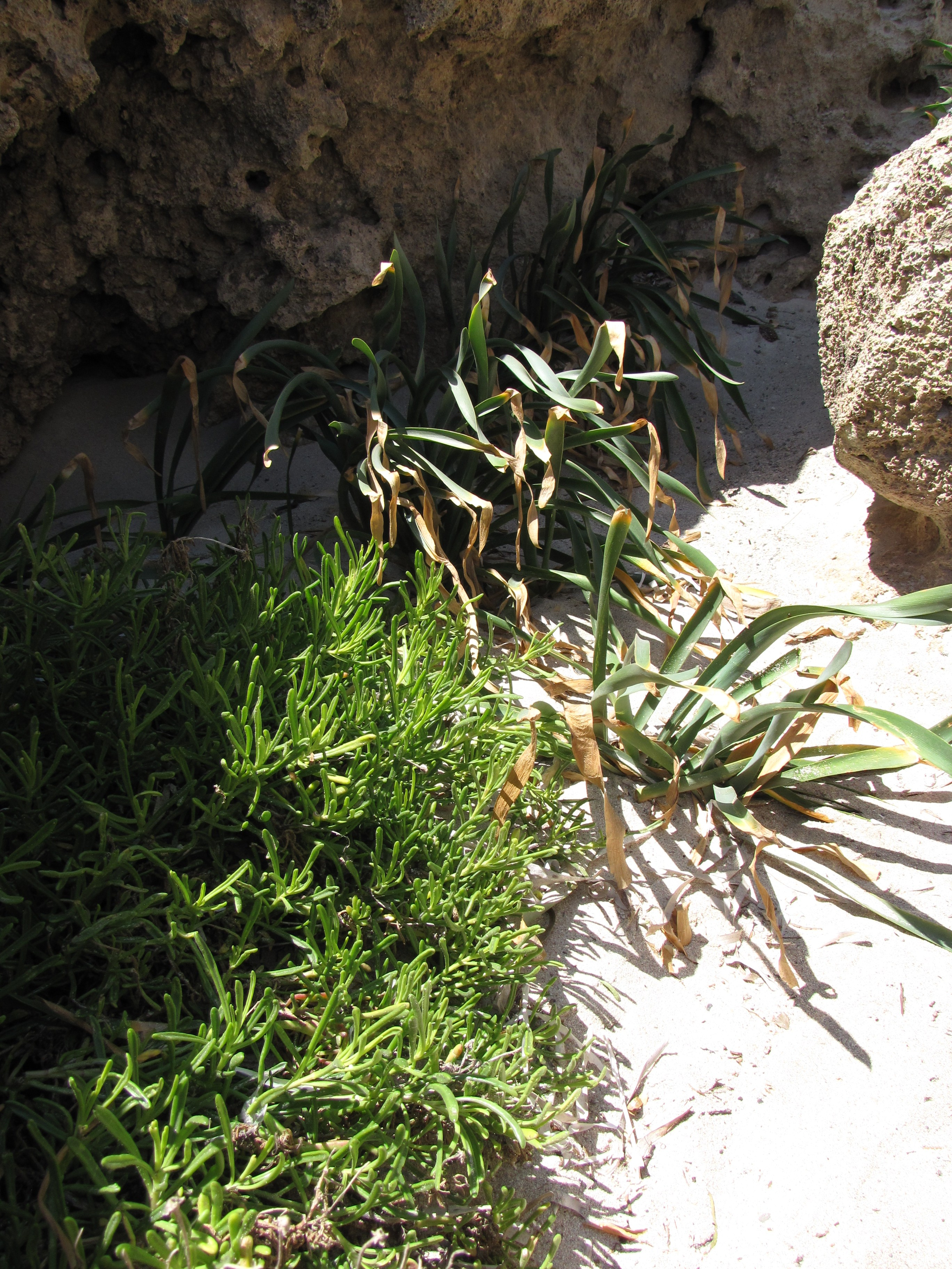 Vegetation in Elafonísi island, Crete, Greece, with Pancratium maritimum and Crithmum maritimum.